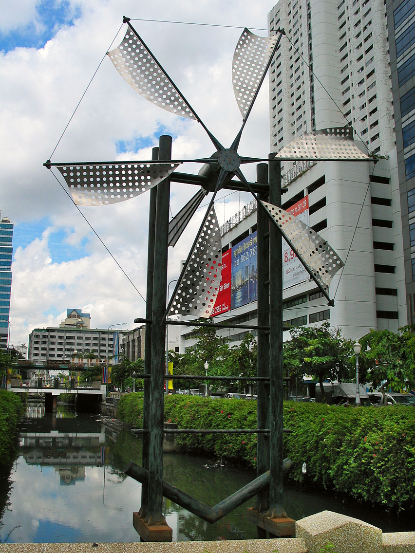 Windmill sculpture, Silom Road, Bangkok, Thailand.